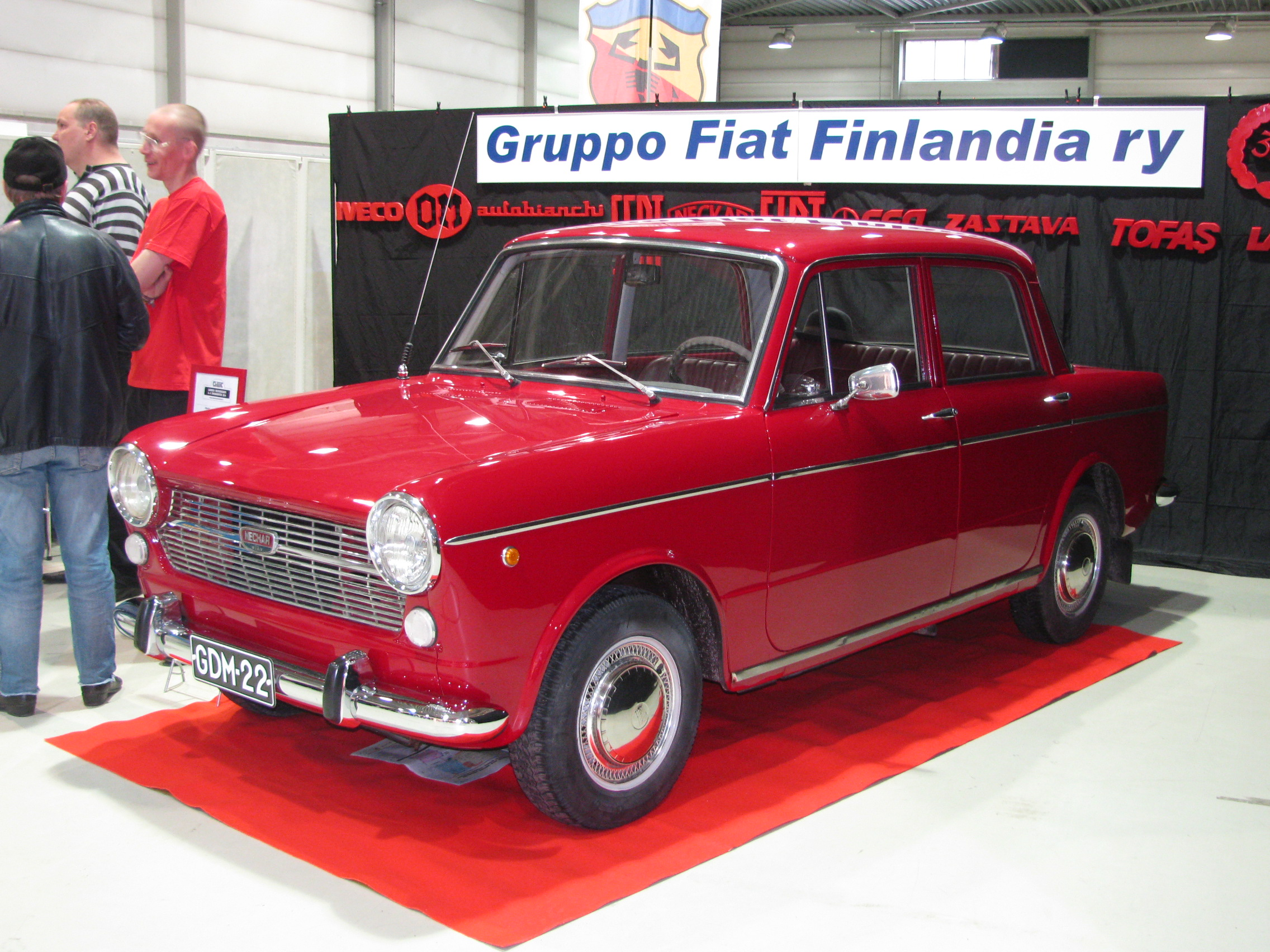 Neckar 1100 R built under licence of Fiat. Classic Motor Show in Lahti, Finland.